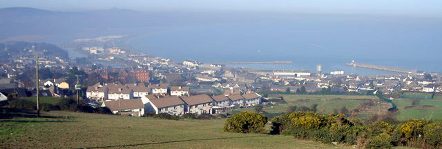 Farmland and view of Wicklow Town, County Wicklow, Republic of Ireland. This is a cropped version of File:Farmland and view of Wicklow Town. - .uk - 692370.jpg